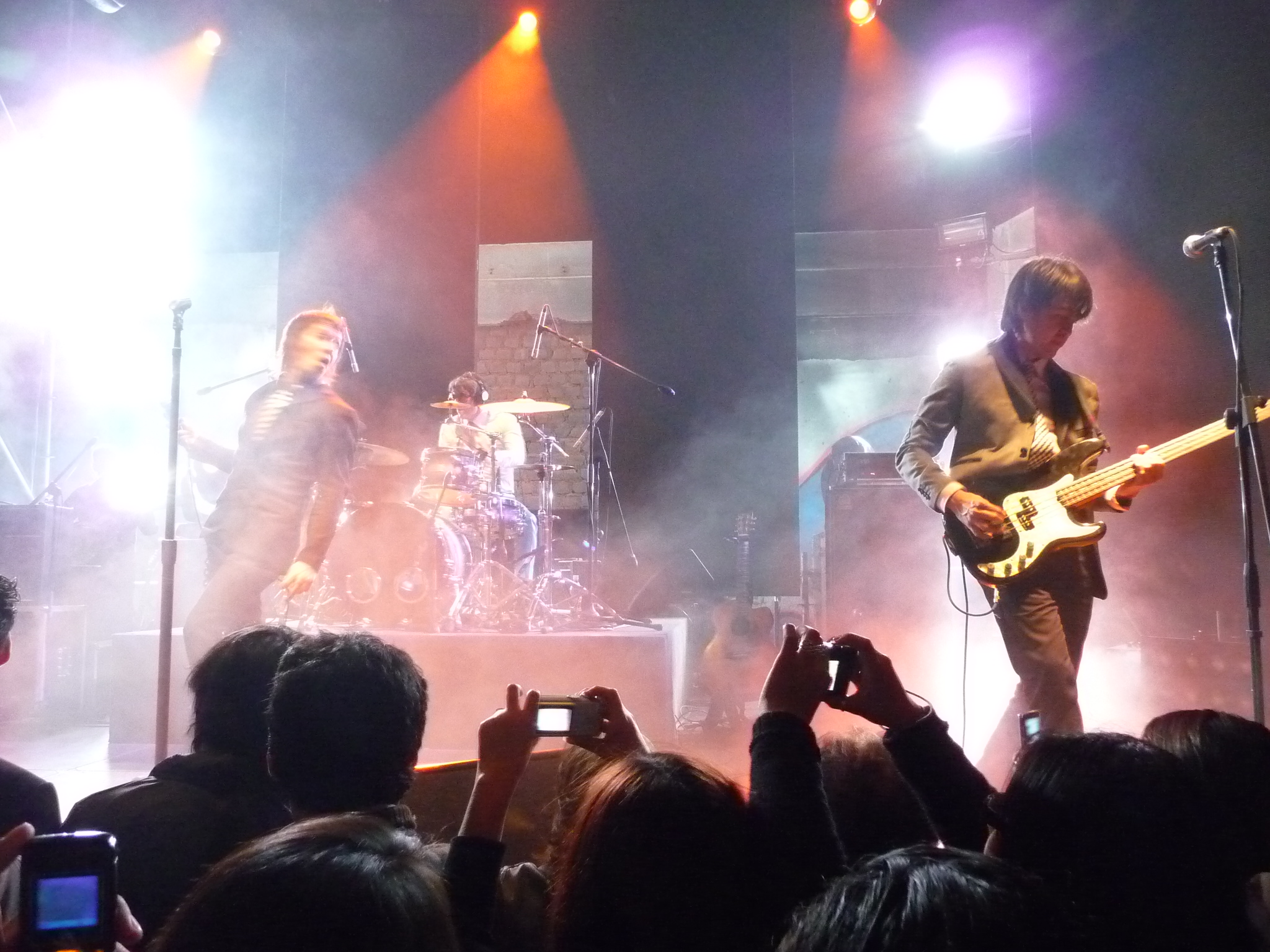 Toño Jáuregui Ft. LIBIDO in 2009.